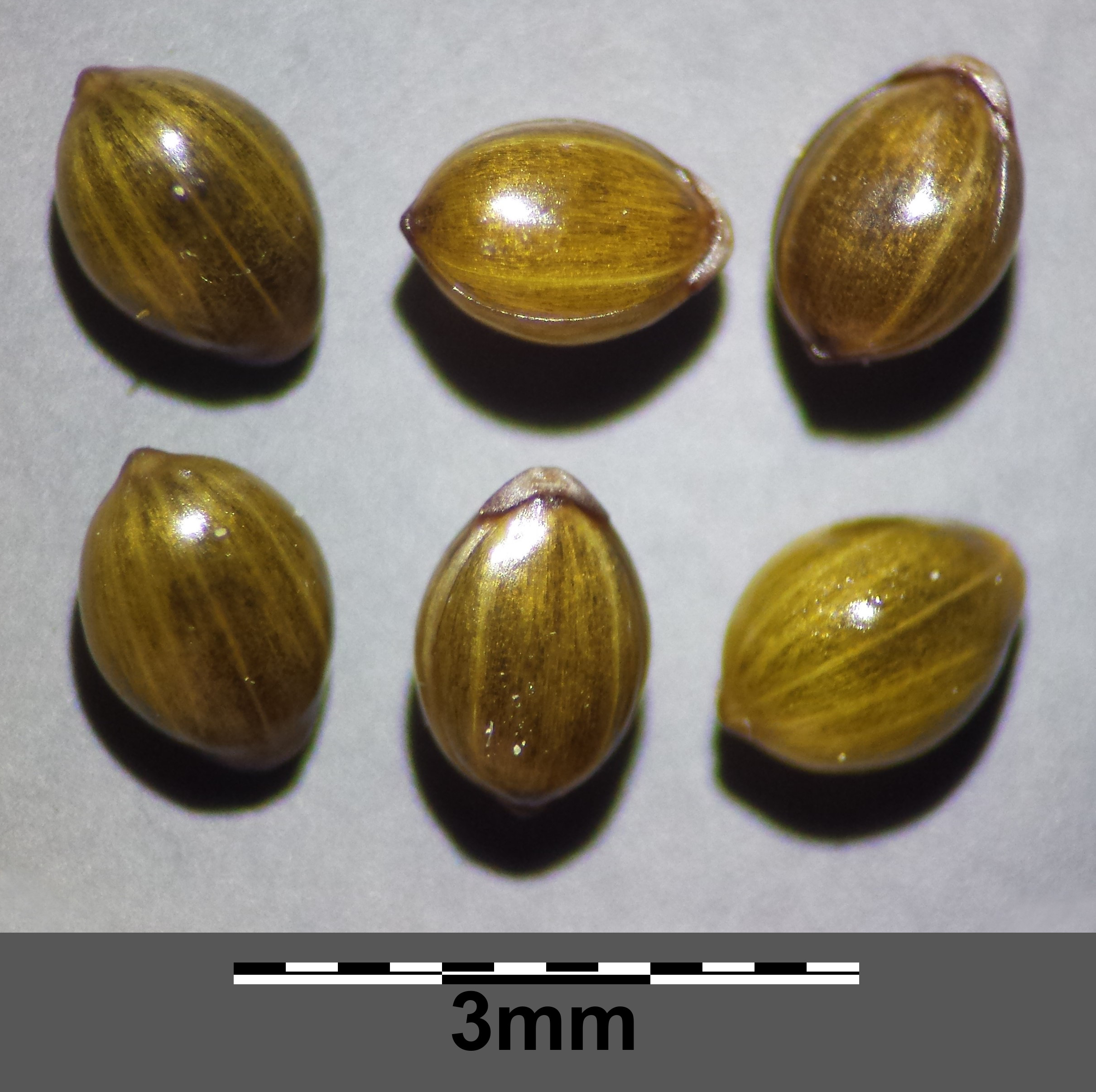 Caryopses wrapped within lemma and palea Taxonym: Panicum hillmanii ss Fischer et al. EfÖLS 2008 ISBN 978-3-85474-187-9 Location: Floridsdorf rail station, Vienna-Floridsdorf - ca. 160 m a.s.l. Habitat: sandy area